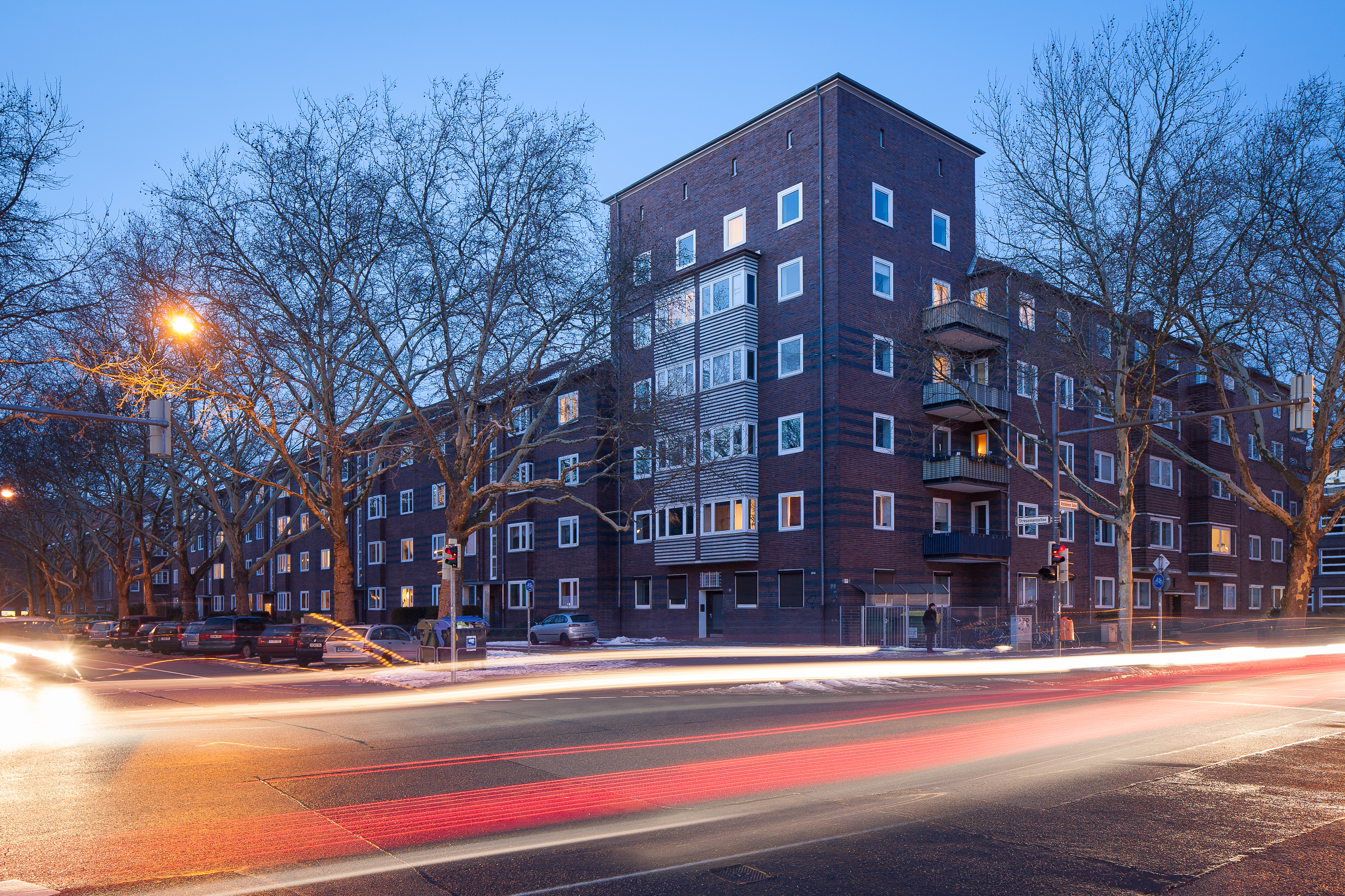 Apartment building located at Stresemannallee Altenbekener Damm and in Hanover, Germany.